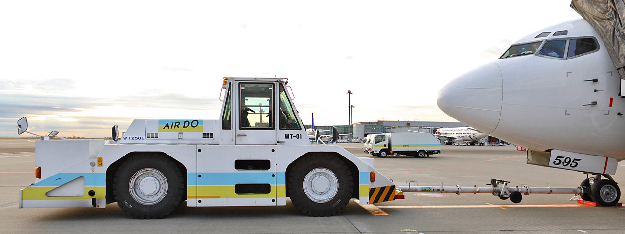 Komatsu towing tractor type WT250E with GPU and Boeing 737-400, of AIR DO in Tokyo Intl. Airport